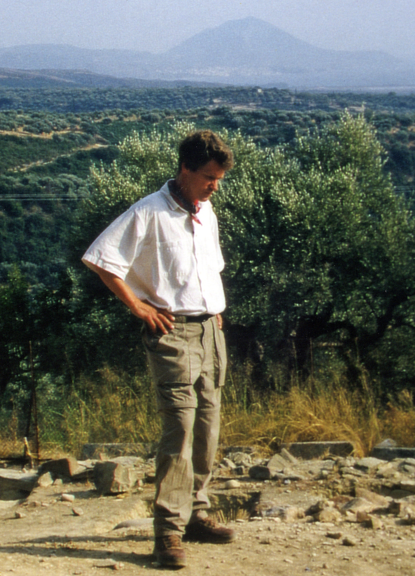 Eberhard Zangger during fieldwork at the palace of Nestor in Pylos, Greece, in 1998.